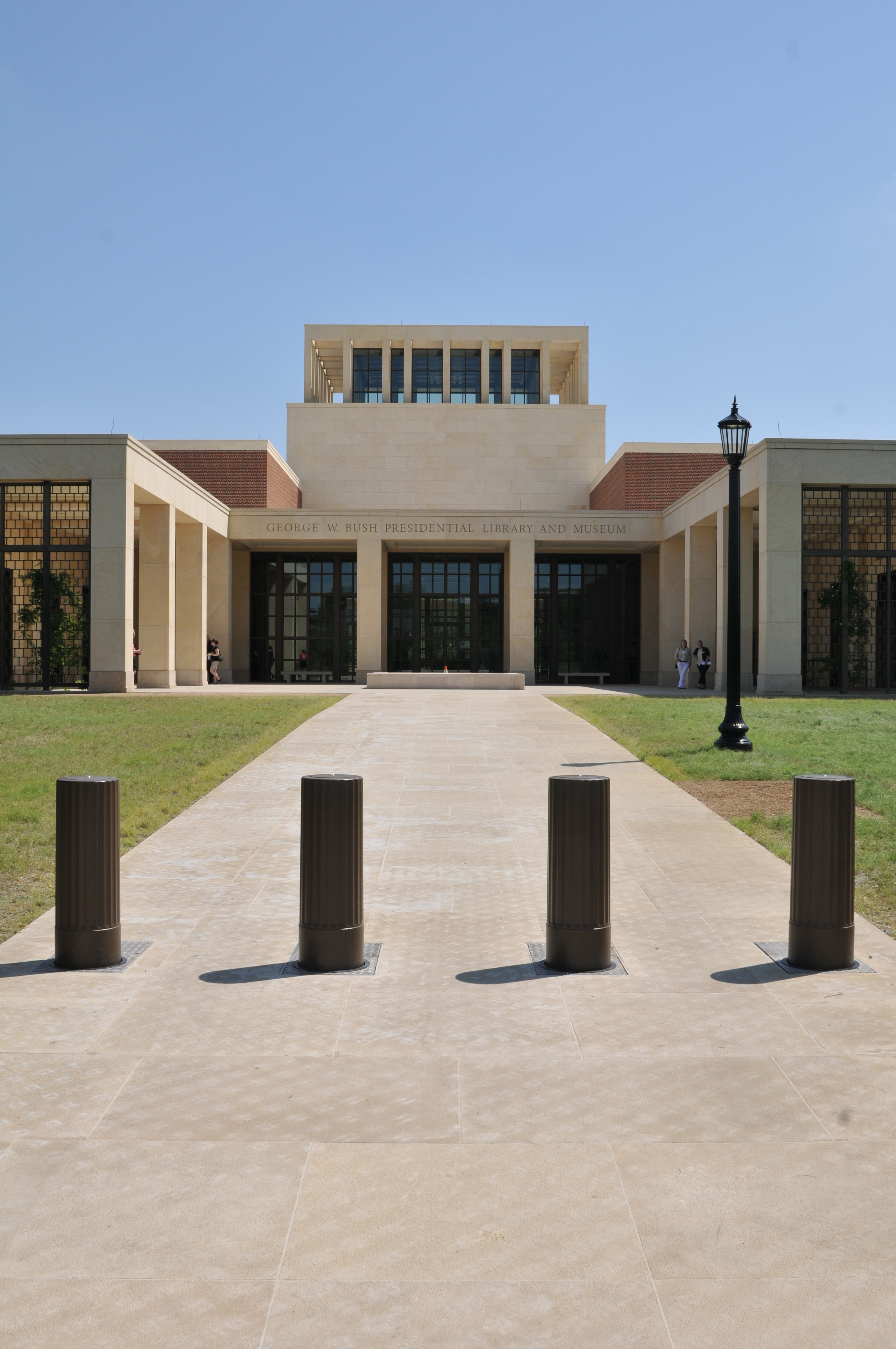 George W. Bush Presidential Center - Part of main enterence